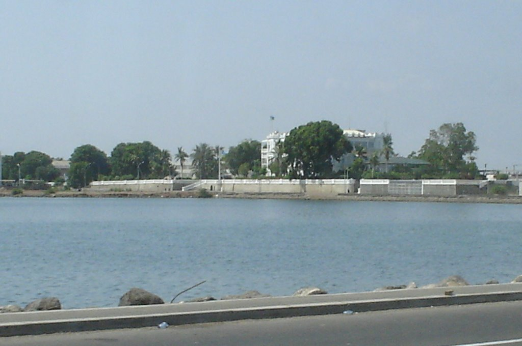 The presidential palace and residence in Djibouti.